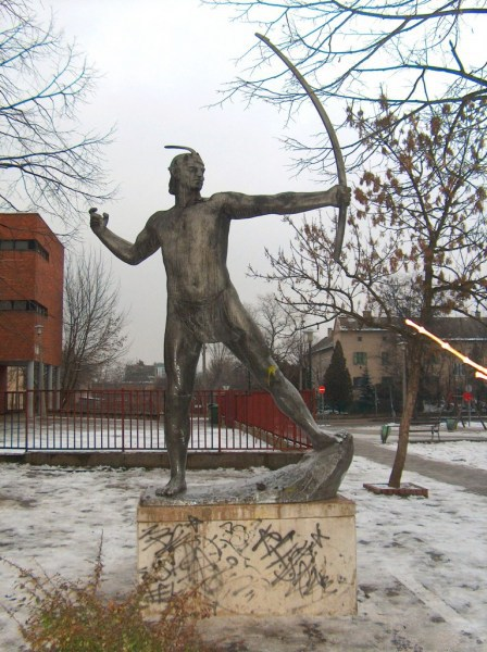 Indian ((sculpture, Budapest, Hungary)